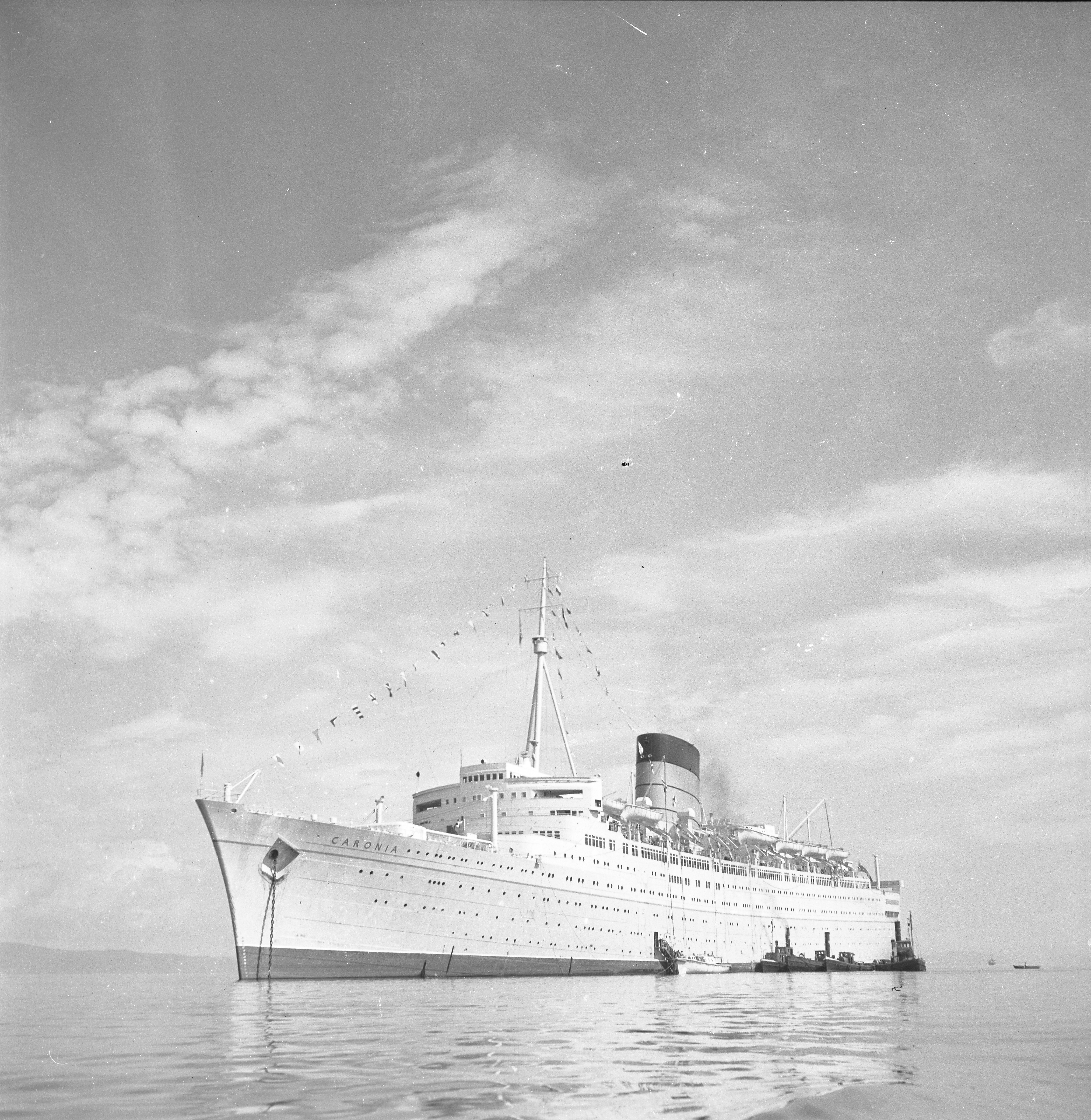 Format: 120 mm sort/hvitt negativ Dato / Date: ca. 1956 Fotograf / Photographer: Oskar A. Johansen Sted / Place: Antagelig Trondheimsfjorden Wikipedia: RMS Caronia Eier / Owner Institution: Trondheim byarkiv, The Municipal Archives of Trondheim Arkivreferanse / Archive reference: F20909 Merknad: Fra fotograf Oskar A. Johansens fotosamling.